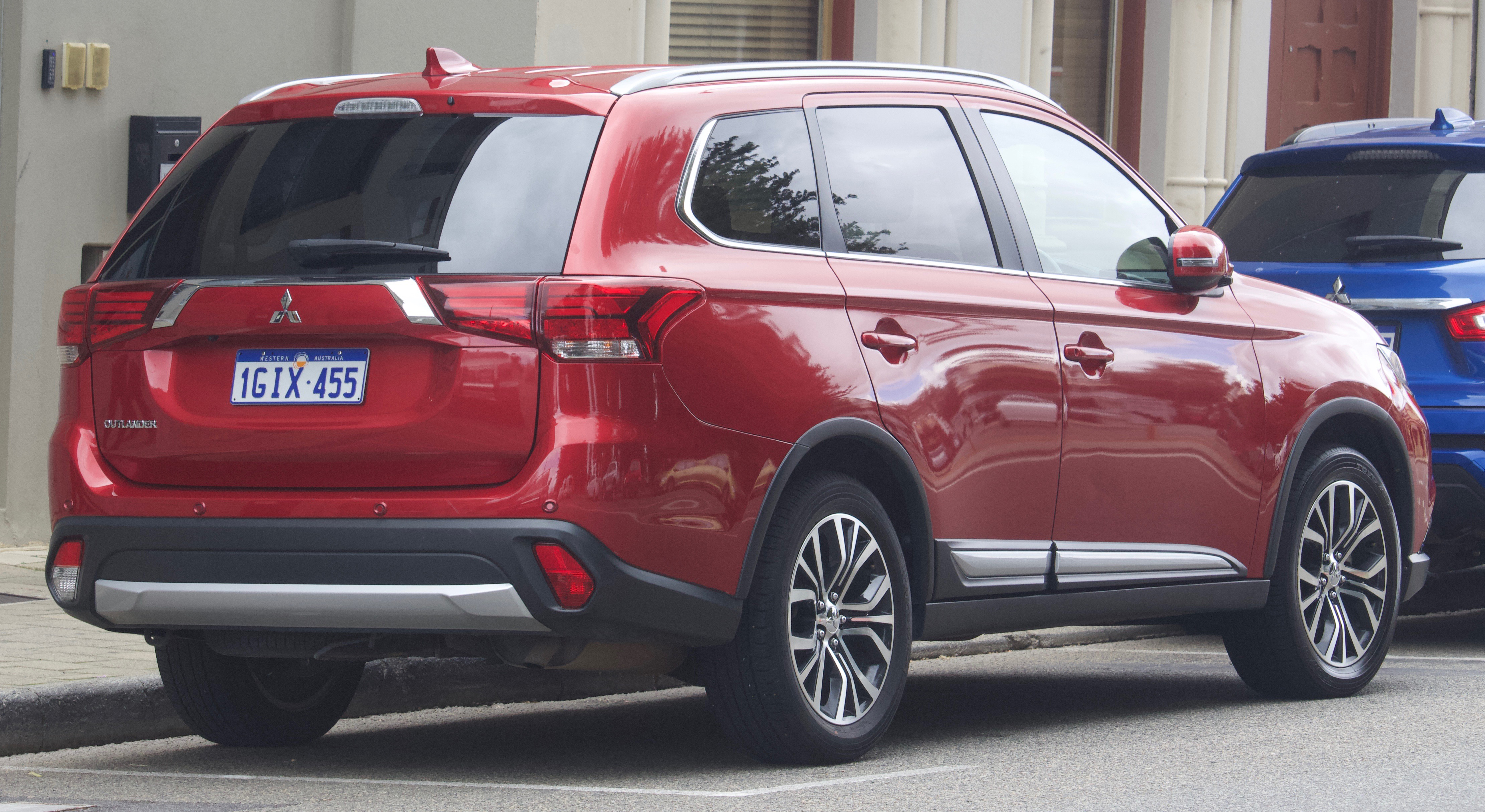 2017 Mitsubishi Outlander (ZK MY17) LS 2WD wagon. Photographed in Fremantle, Western Australia, Australia.